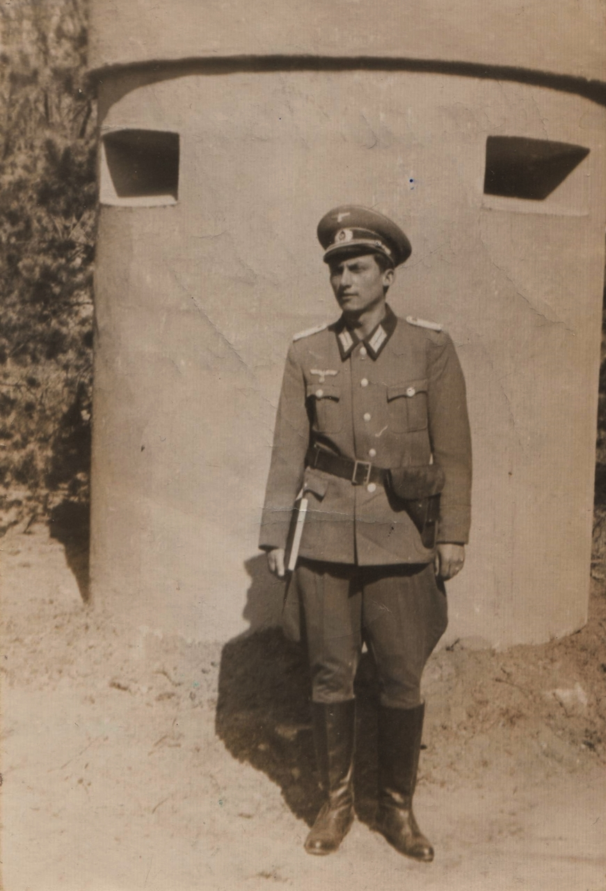 Actors on the set in Wolfschanze, Gierłoż, Poland 1968, film "Liberation" (film series), translit. Osvobozhdenie, directed by Yuri Ozerov. The series was a Soviet-Polish-East German-Italian-Yugoslav co-production.